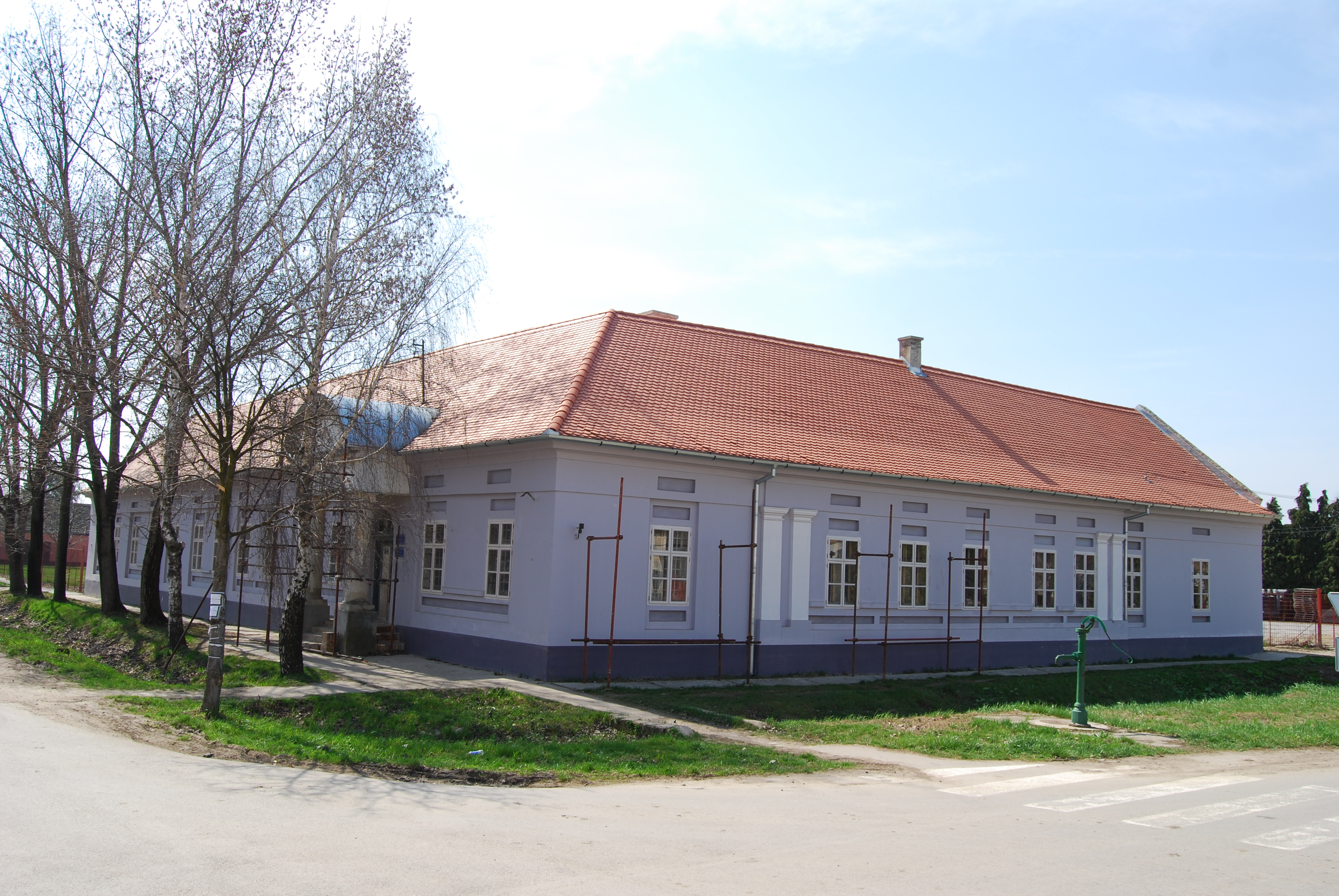 Old municipal building in Vranjevo - street facades